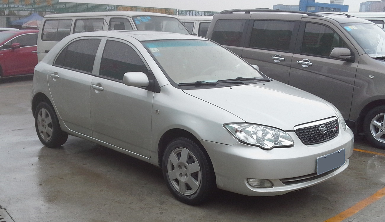 BYD F3R photographed in Chengdu, Sichuan province, China.